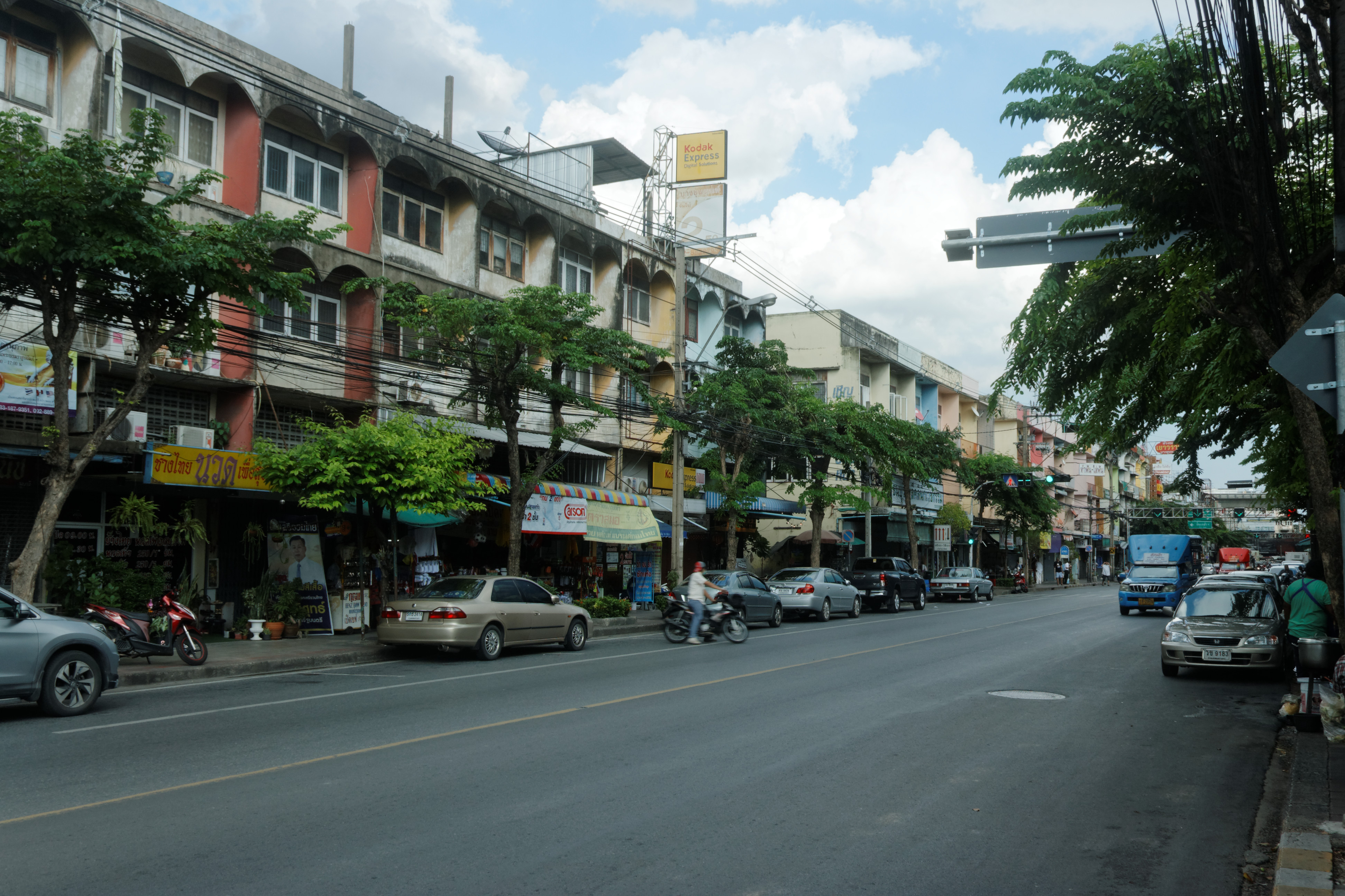 Bang Khun Non street